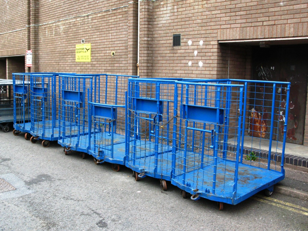 BRUTEs (British Rail Universal Trolley Equipment) were introduced to handle parcels at British Railways stations and parcels depots in the 1960s. They could be coupled as a train to be pulled by electric tractors and had pockets to enable them to be lifted safely by forklift trucks. Most have now been cut up for scrap as parcels are no longer handled in this way, but these six have been put to further use at Newton Abbot market in Devon, England. They are still painted in Rail Blue but no longer have the tips of their brake handles painted yellow. Note that the third from the right has a reduced height and no sides to allow it to carry 'out of gauge' loads.